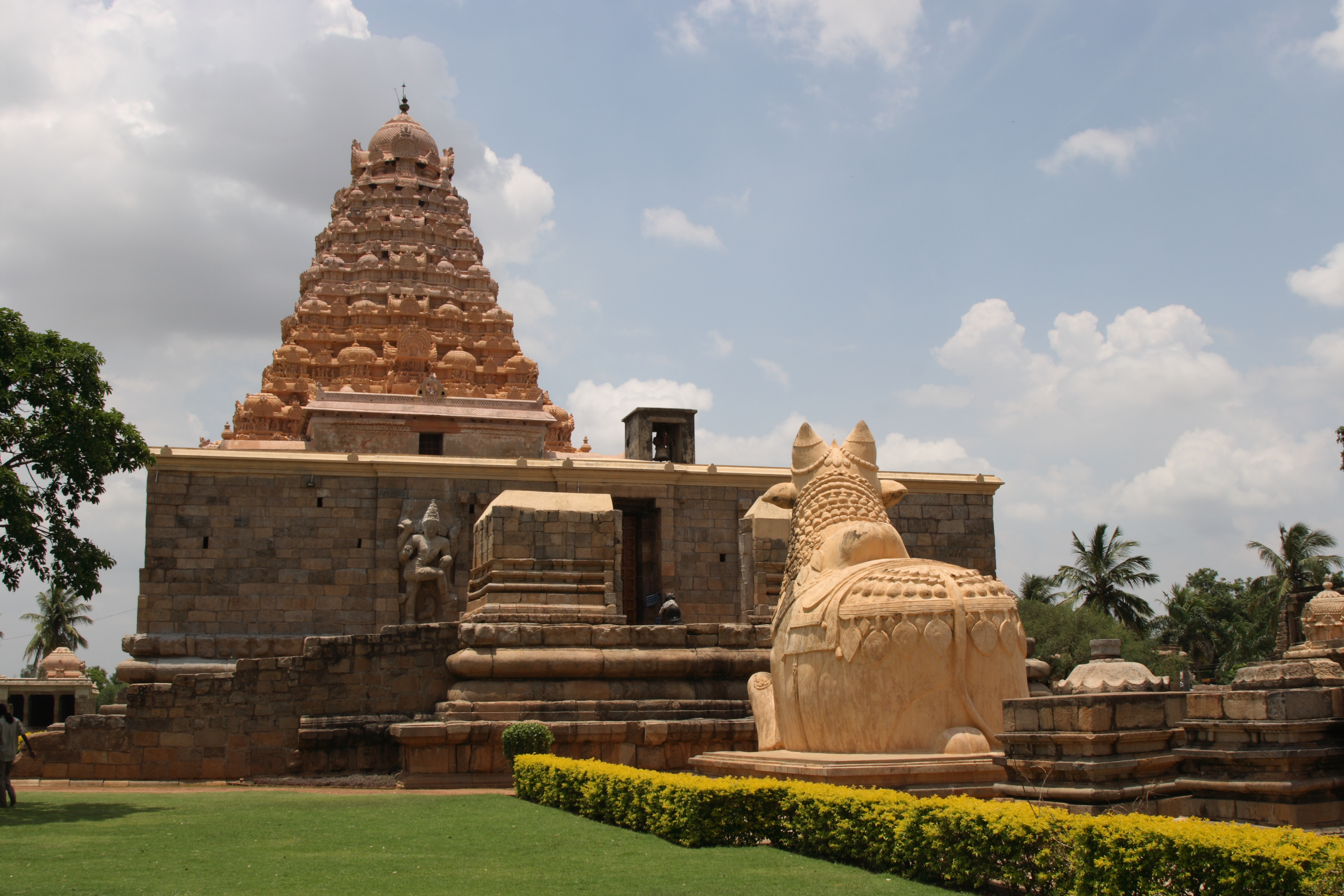 Gangaikondacholapuram temple. 1025-1035. Tamil Nadu (Bibl. : Vidya Dehejia : Indian Art, 1997, pages : 224-225